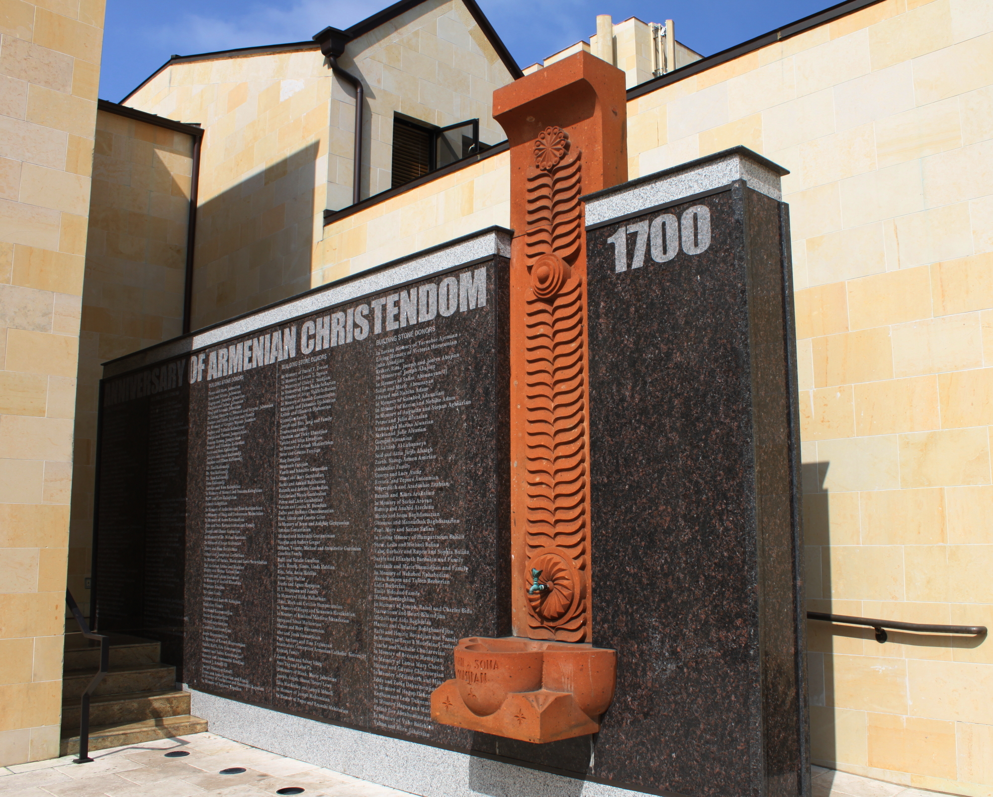 Memorial wall on the building of the church for the 1700th anniversary of Christianity as a state religion in Armenia. In the Saint Gregory the Illuminator Armenian Catholic Church in Glendale, California. Built in 2001.